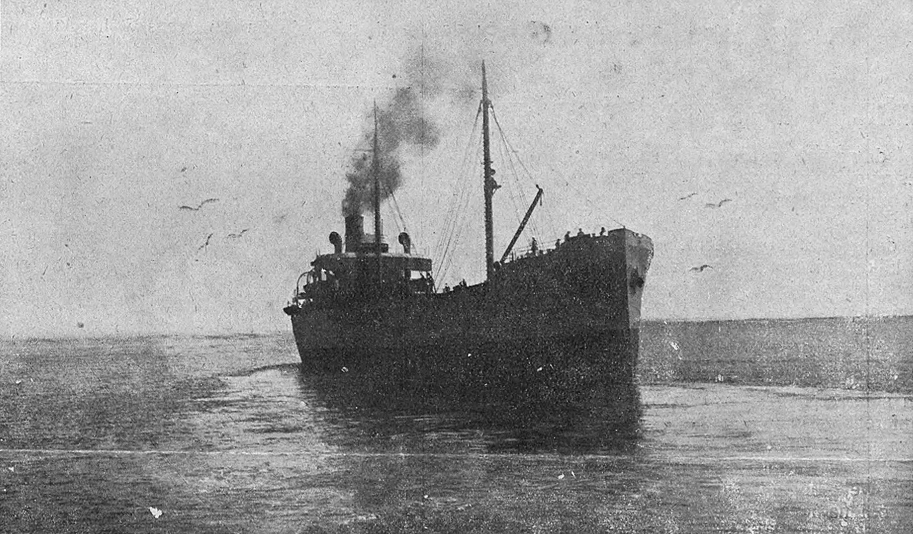 Polish military transport ORP Warta, then steamer SS Warta